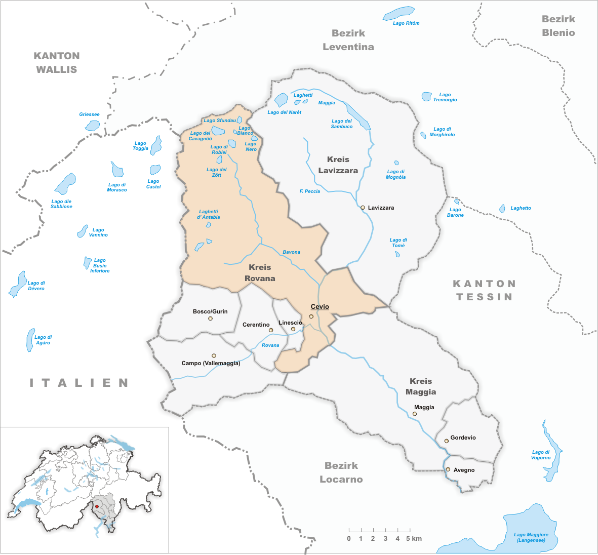 Municipality Cevio